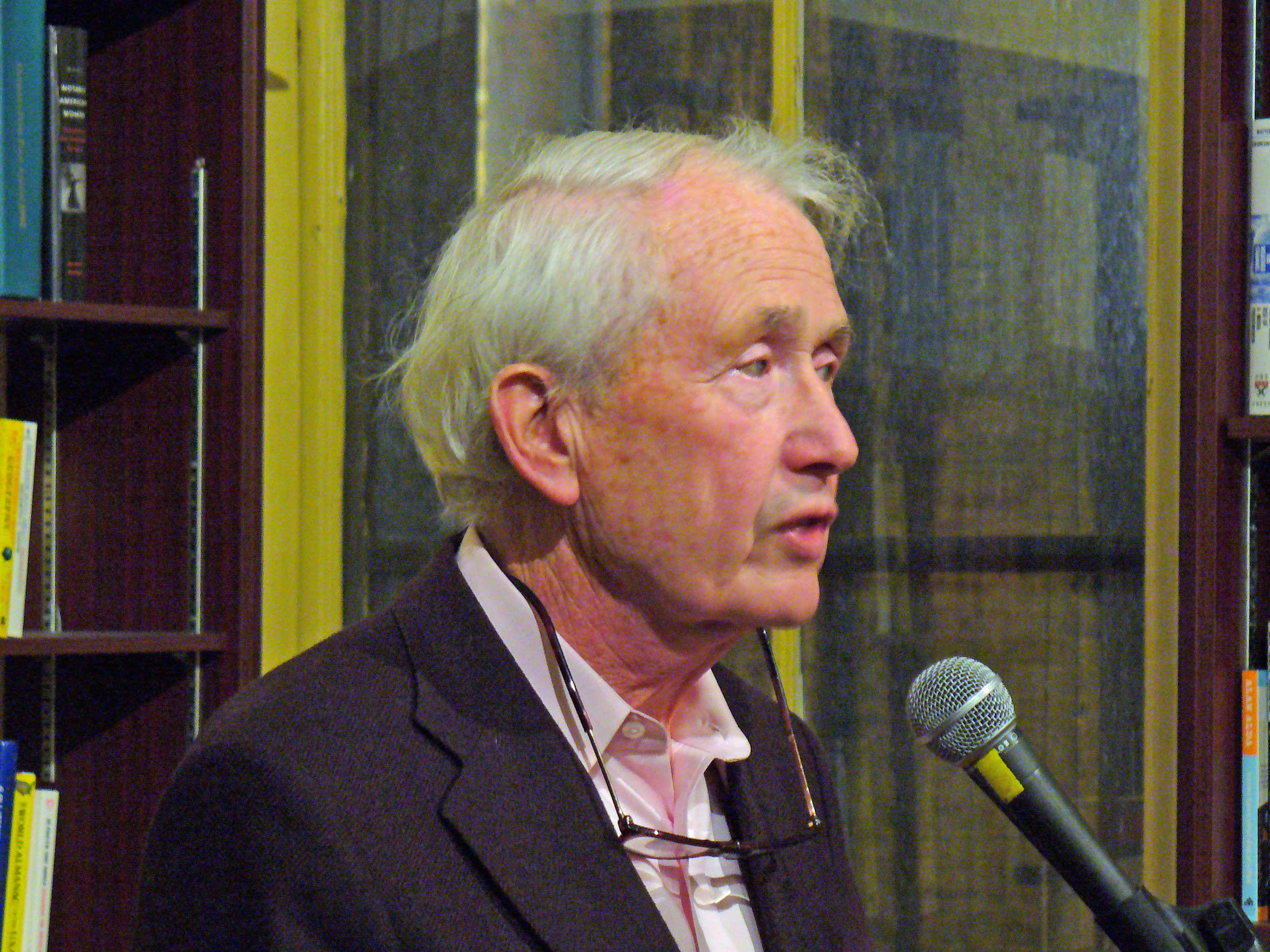 Frank McCourt at New York City's Housing Works bookstore for a tribute to recently-deceased Irish poet Benedict Keily. Photographer's blog post about the death of Frank McCourt and the memory of this photo.